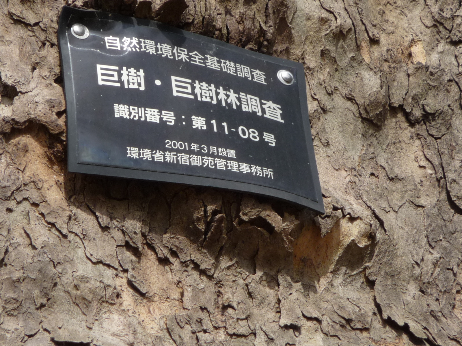 The identification number plate of big tree survey by Ministry of the Environment (Japan)in Shinjuku Gyoen.